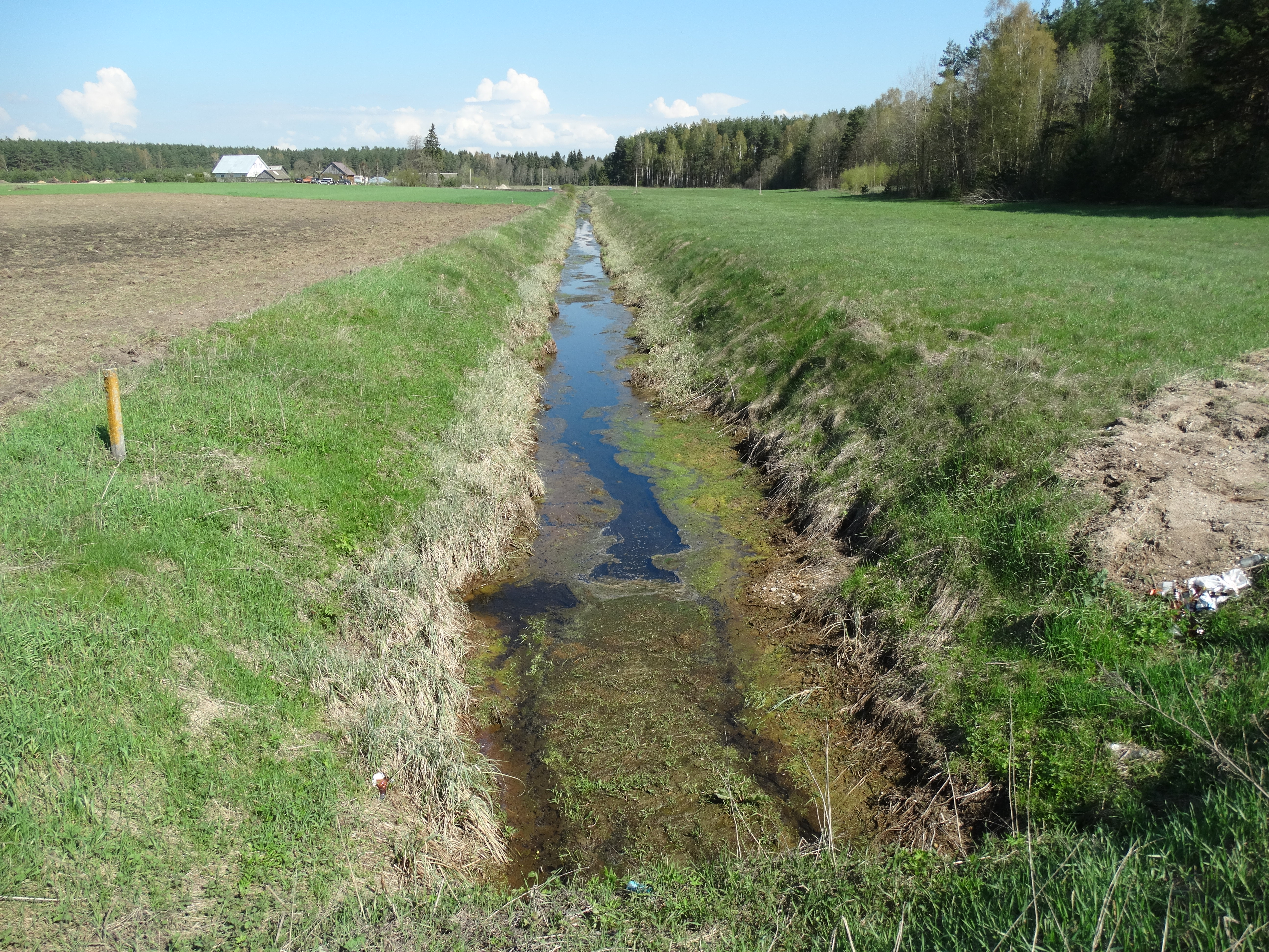 Tarnėnai, Vilnius District, Lithuania